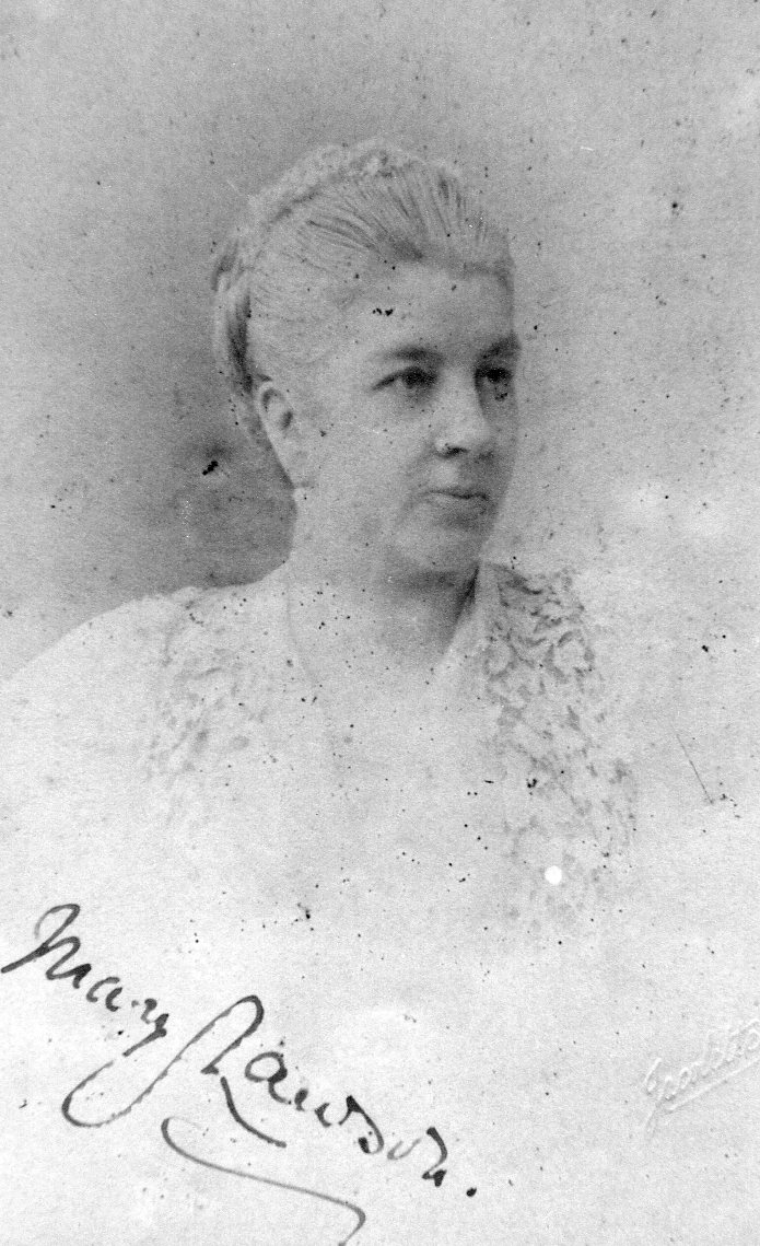 Copy of signed postcard